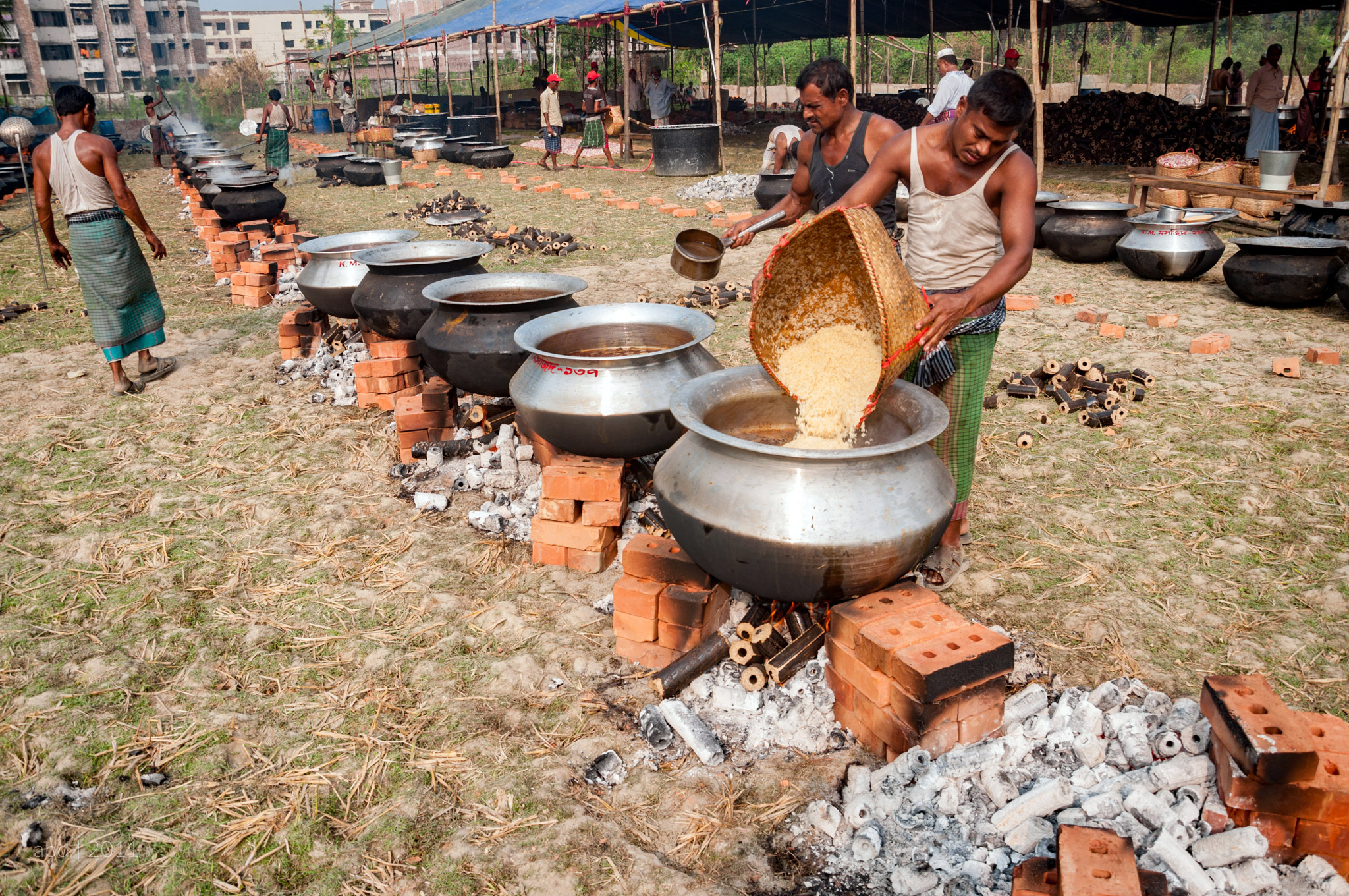 Traditional Mejban (cooking), Chittagong, Bangladesh.